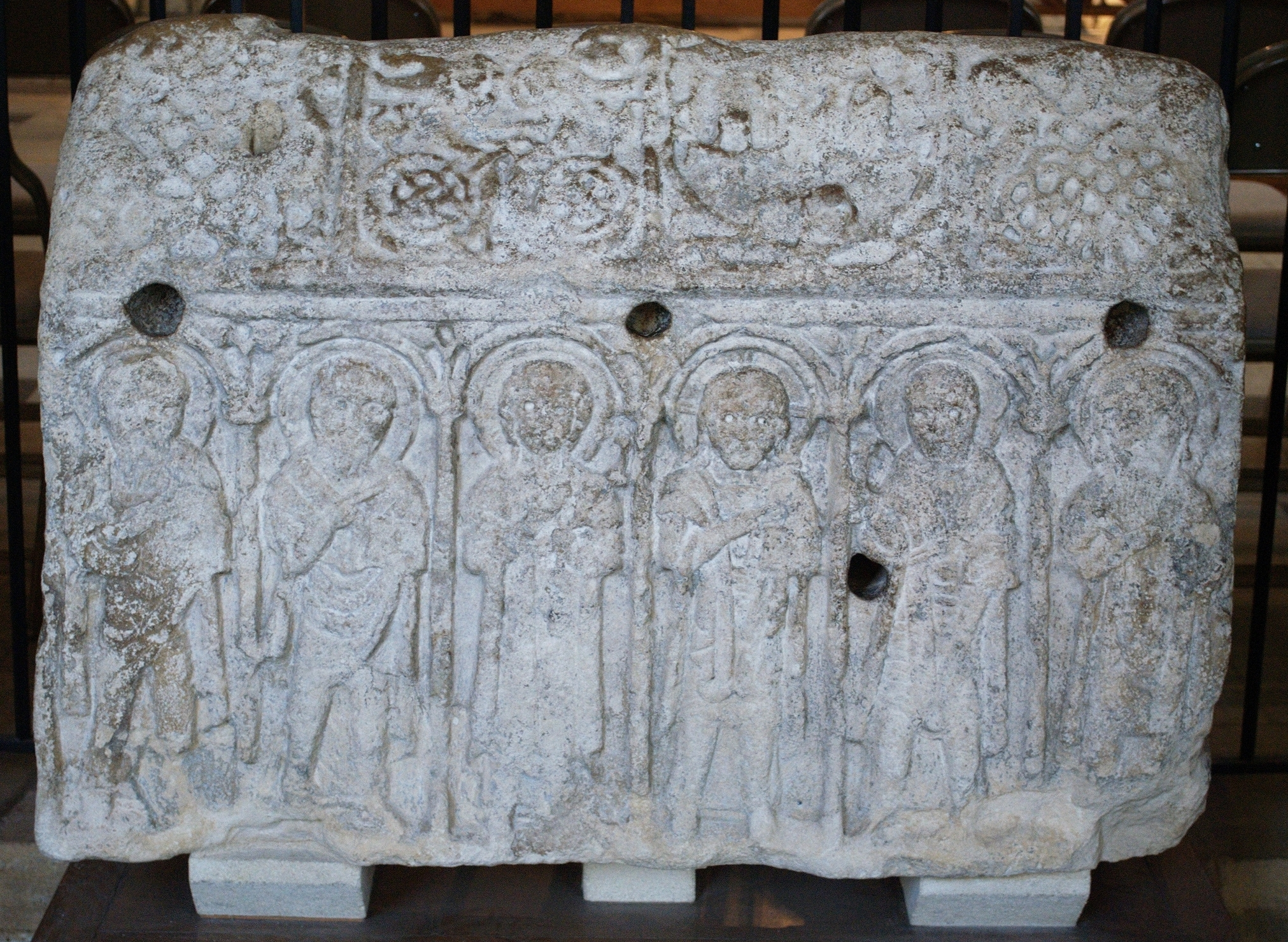 The Hedda Stone, a late 8th- or early 9th-century Anglo-Saxon stone relief in